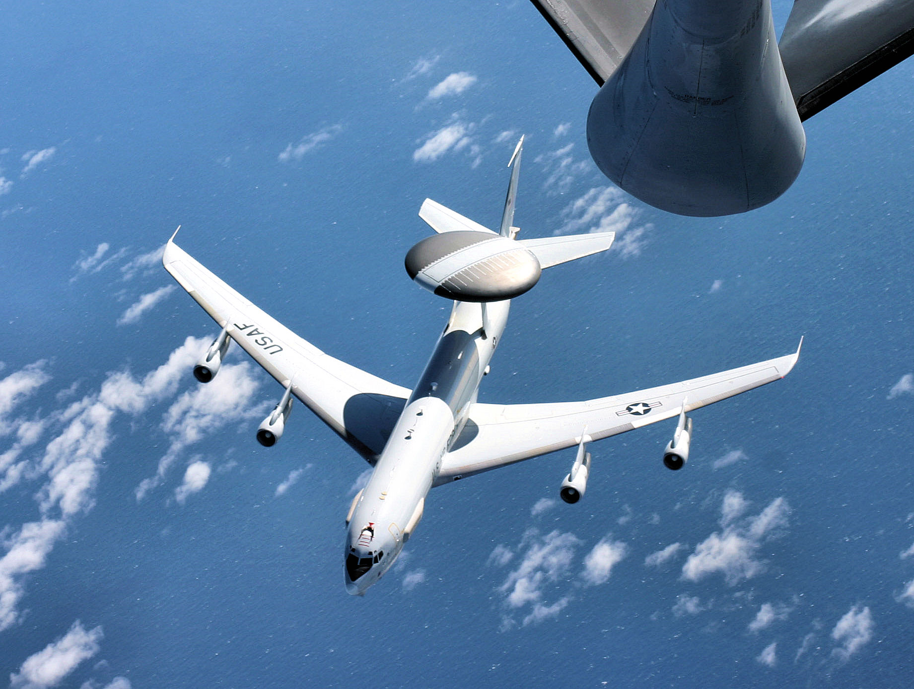 OVER ARGENTINA -- An E-3 Sentry airborne warning and control system aircraft breaks away from a Mississippi Air National Guard KC-135 Stratotanker during a presidential support mission here. The Sentry, from the 552nd Air Control Wing at Tinker Air Force Base, Okla., deployed to provide airborne surveillance for the Summit.